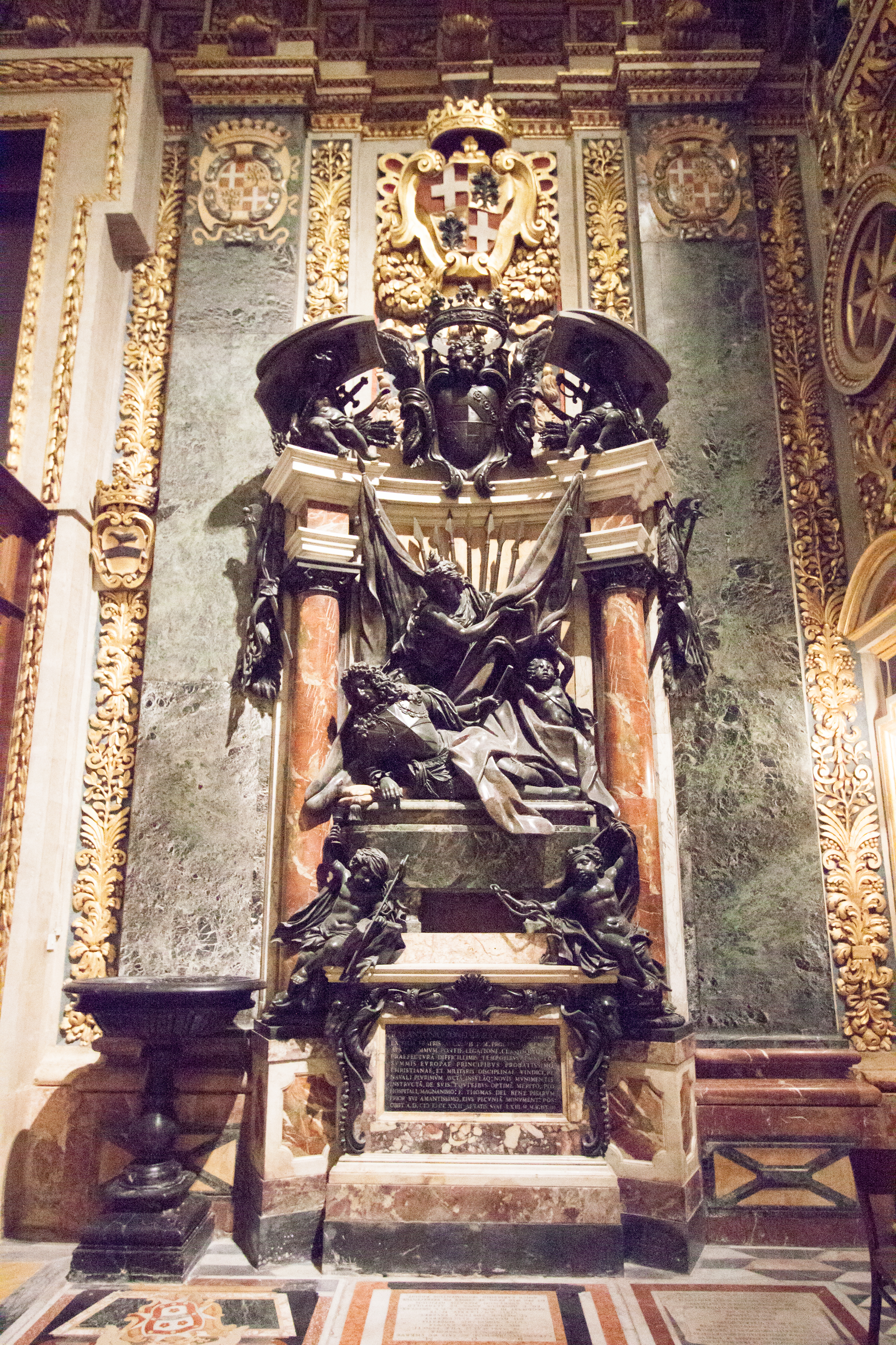 Detail in a chapel of St. John's Co-Cathedral